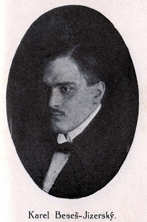 Karel Josef Benes (1896-1969), czech writer